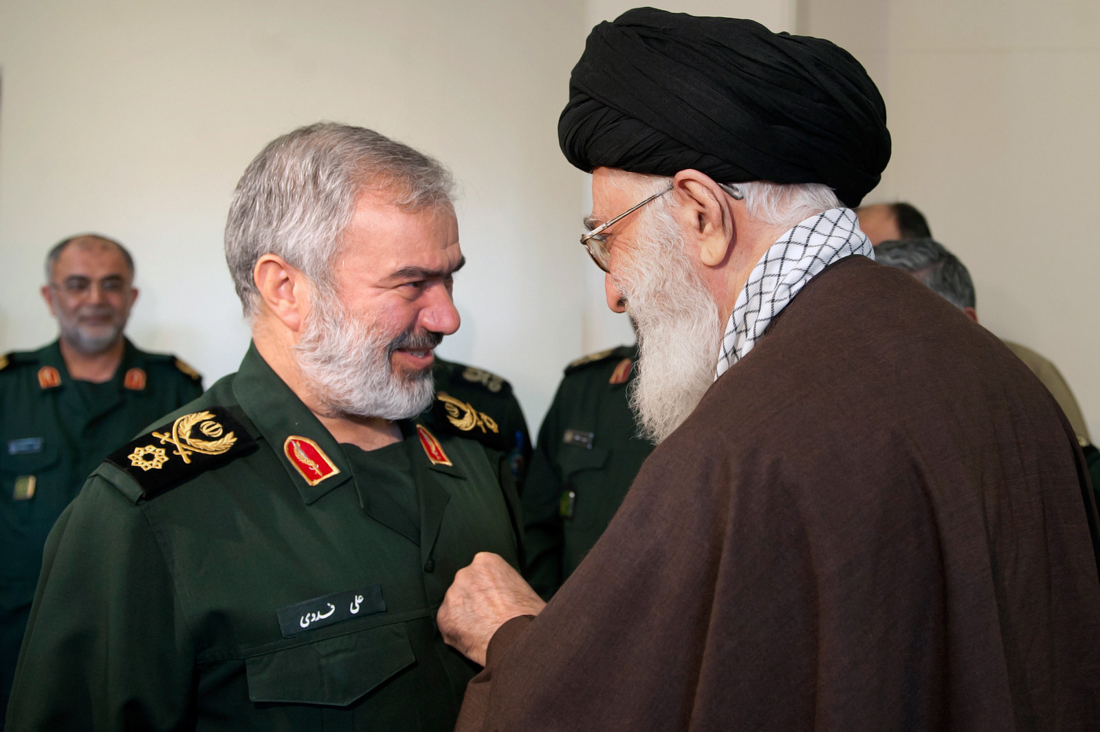 Ayatollah Seyyed Ali Khamenei Gives the Order of conquest to Brigadier General Ali Fadavi and four other commanders of the Islamic Revolutionary Guard who arrest American soldiers who attacked the Iranian borders in the Persian Gulf